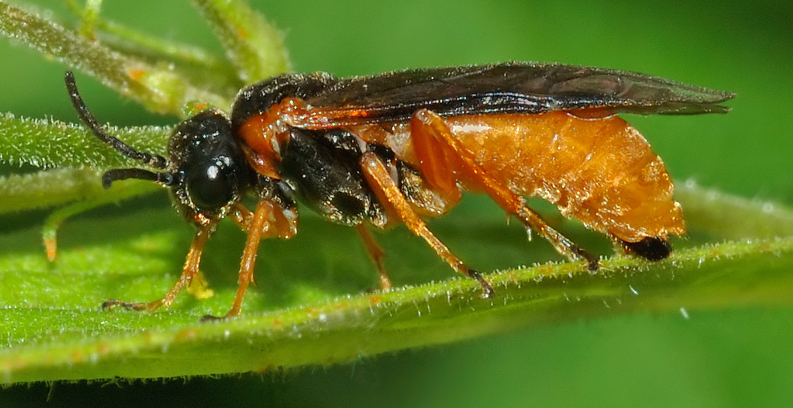 This image shows a common sawfly (Tenthredinidae). The species name is Monostegia abdominalis (Fabricius, 1798).